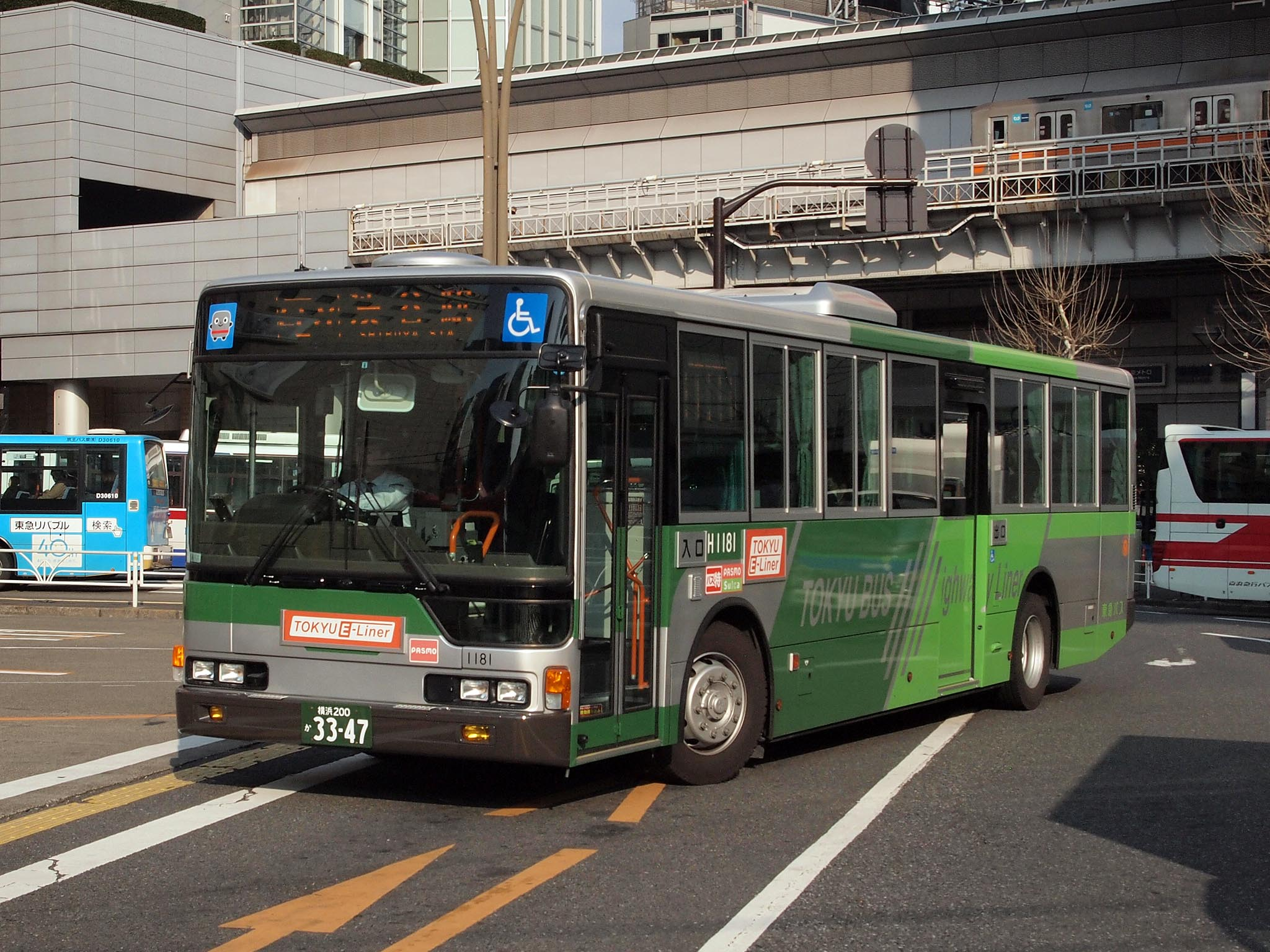 "Tokyu E-Liner" arrived at Shibuya Station. Model: Mitsubishi Fuso Aero Star LKG-MP35FP License plate: KNY200 KA3347